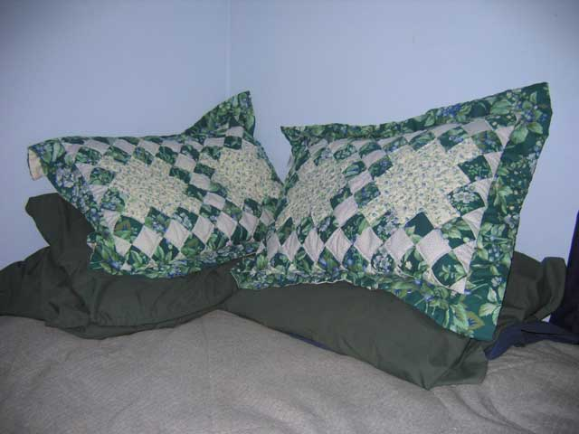 pillows piled in the corner of a bed